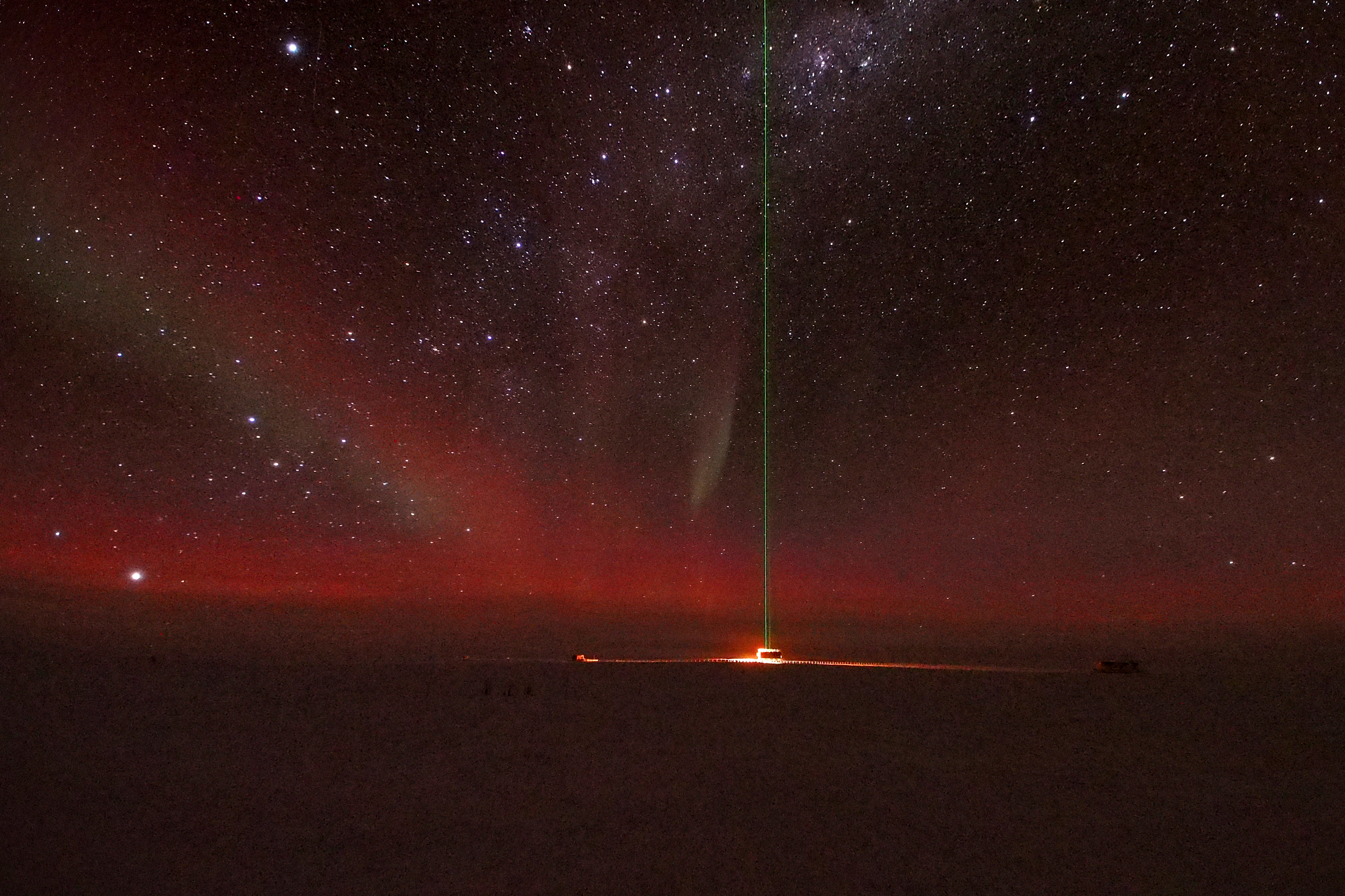 Lidar measurement from a shelter in Dome C, a few hundreds of meters from the Concordia research station. In the background, the aurora australis. The picture has been taken during the 2014 antarctic winter.